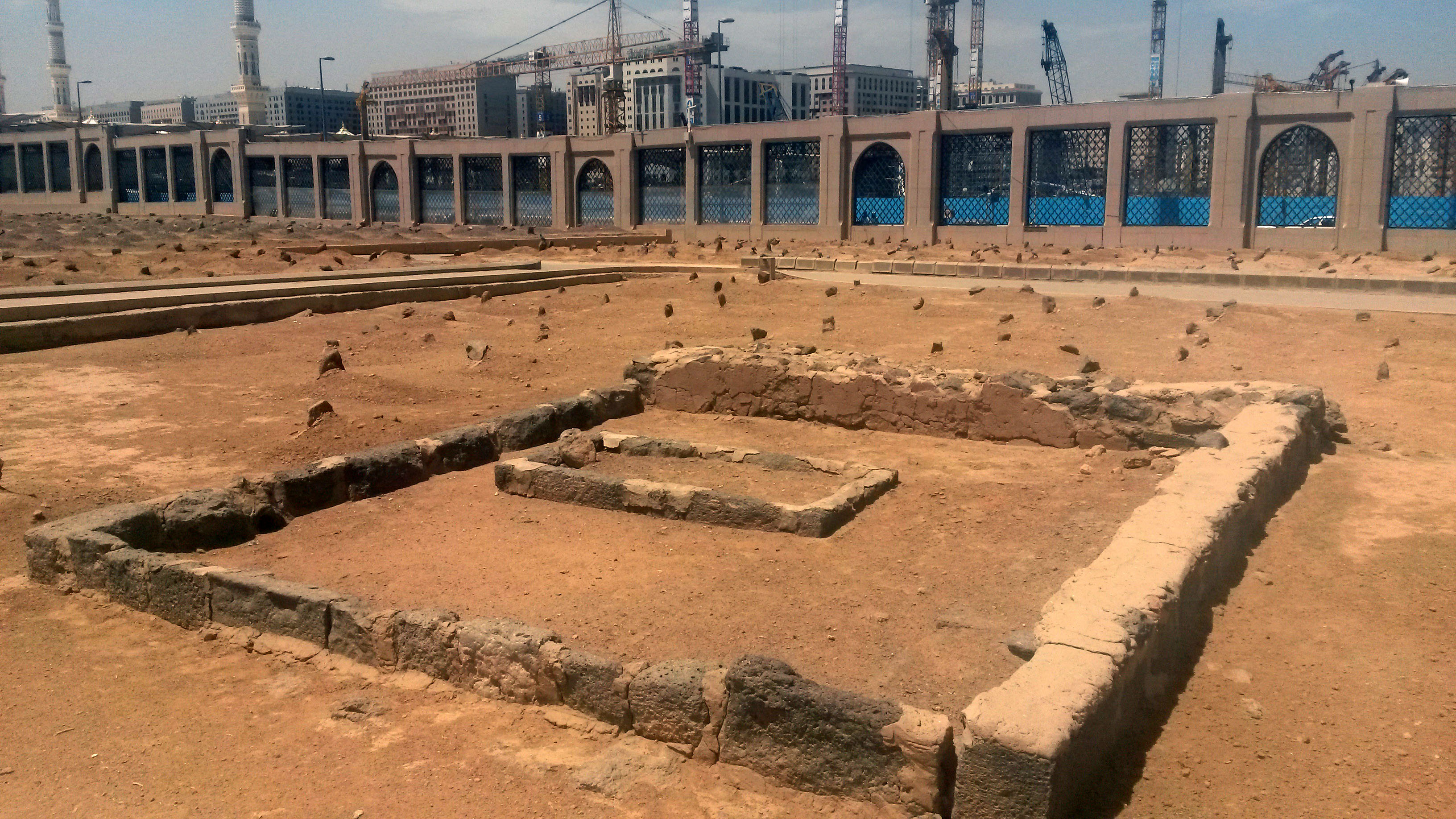 Halimah tomb in Baqi